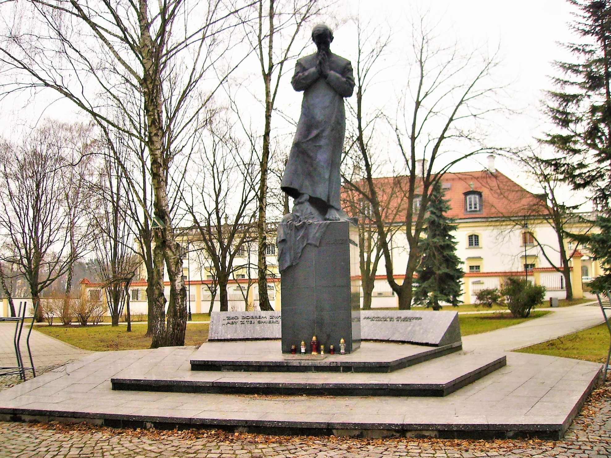 Jerzy Popiełuszko monument in Białystok